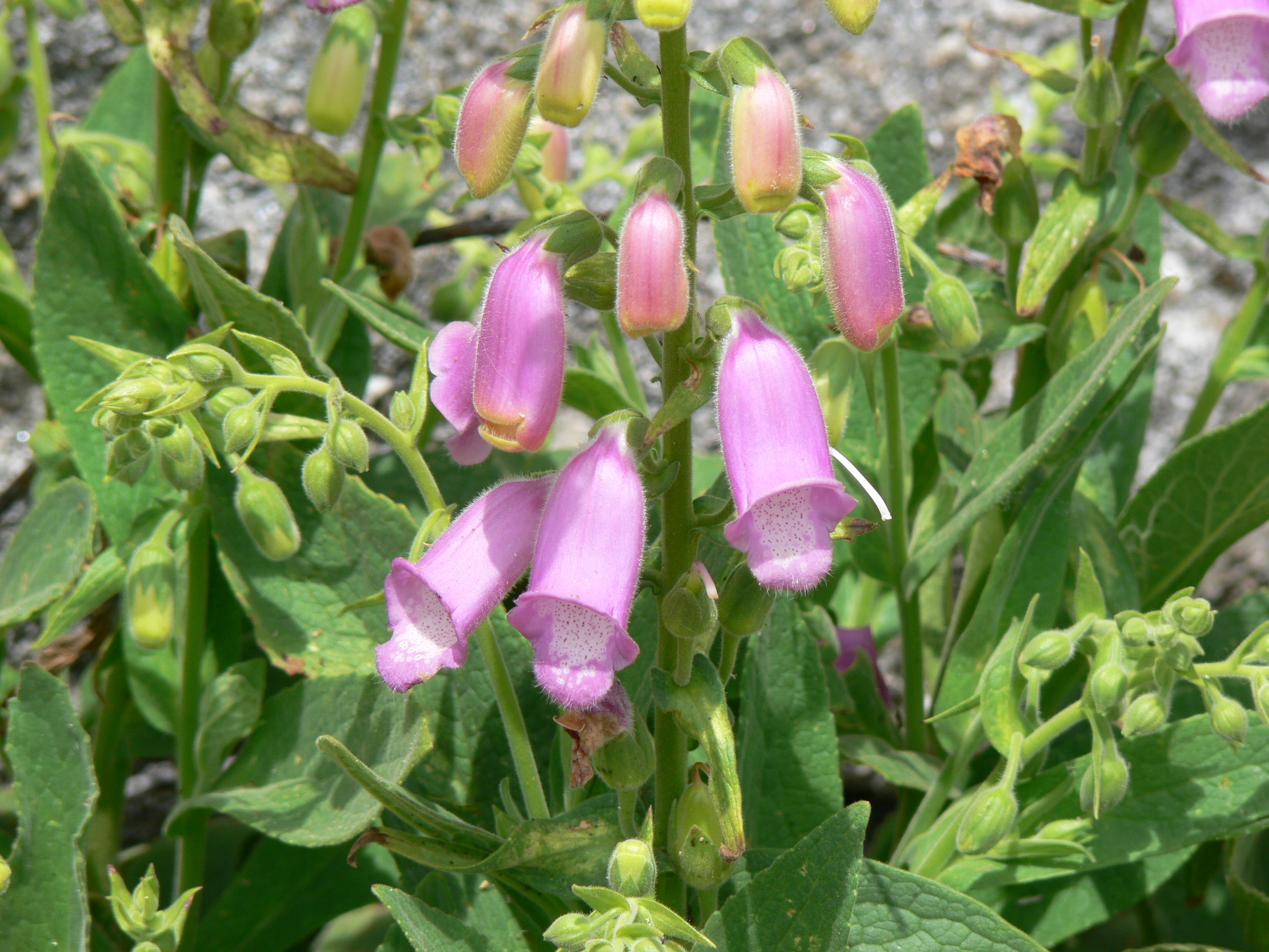 A picture of a Digitalis thapsi taken at Villavieja de Yeltes, Salamanca, Spain